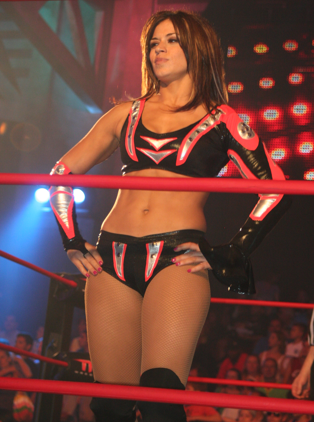 Professional wrestler Sarita at a TNA Impact! taping.